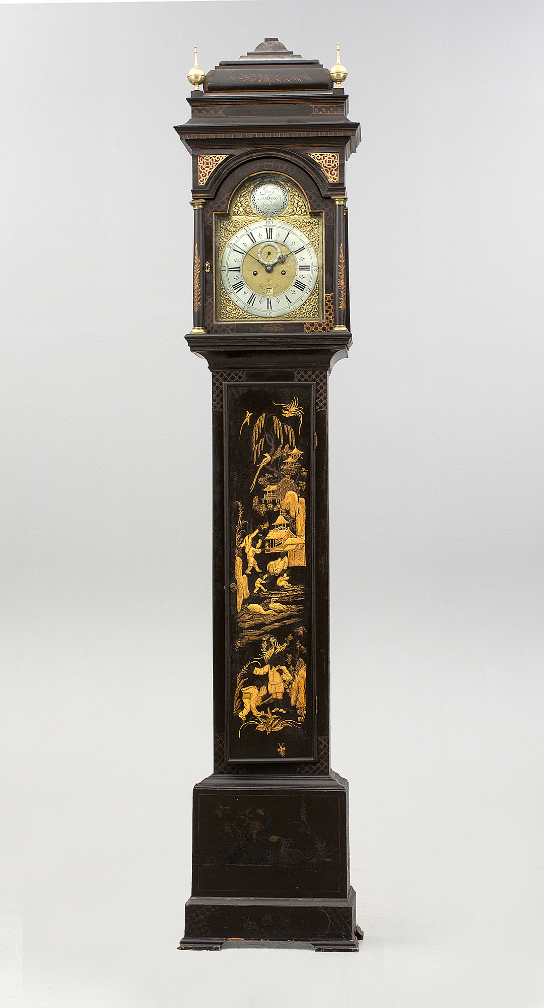 A fine lacquer longcase clock made by renowned London clockmaker John Tolson (1691-1737)